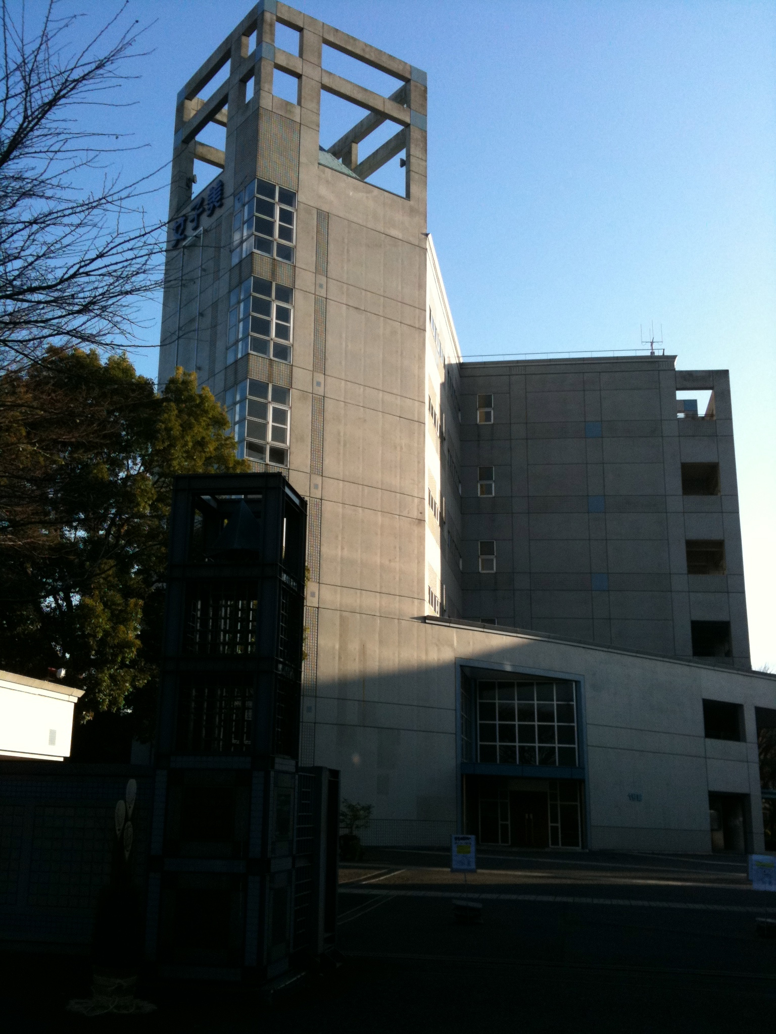 Joshibi University of Art and Design